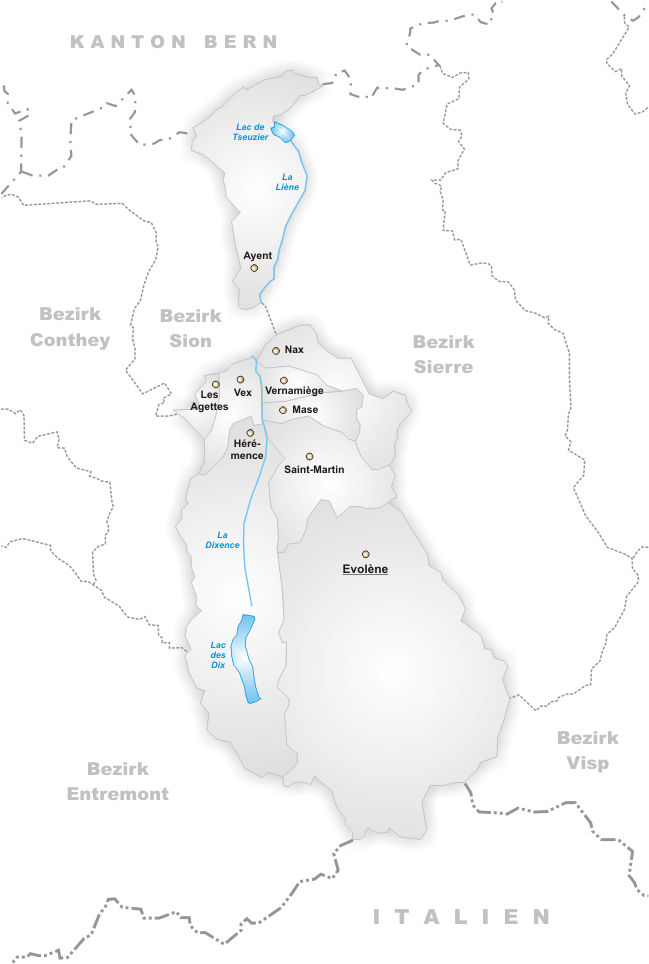 Municipalities of District Hérens